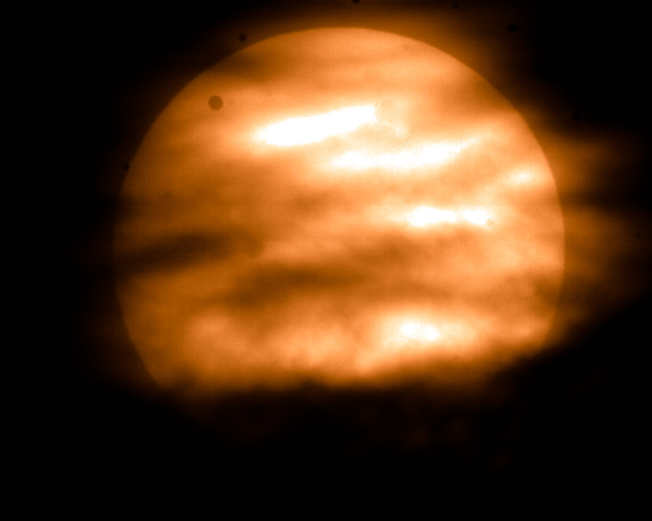 Transit of Venus taken in Sankt Andreasberg from Utz Schmidko, Harzsternwarte